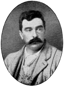 Image scanned from the book "Svenskt Porträttgalleri XX - Arkitekter, Bildhuggare, Målare m.fl. " ("Swedish Portrait Gallery XX - Architects, Sculptors, Painters, ") published 1901